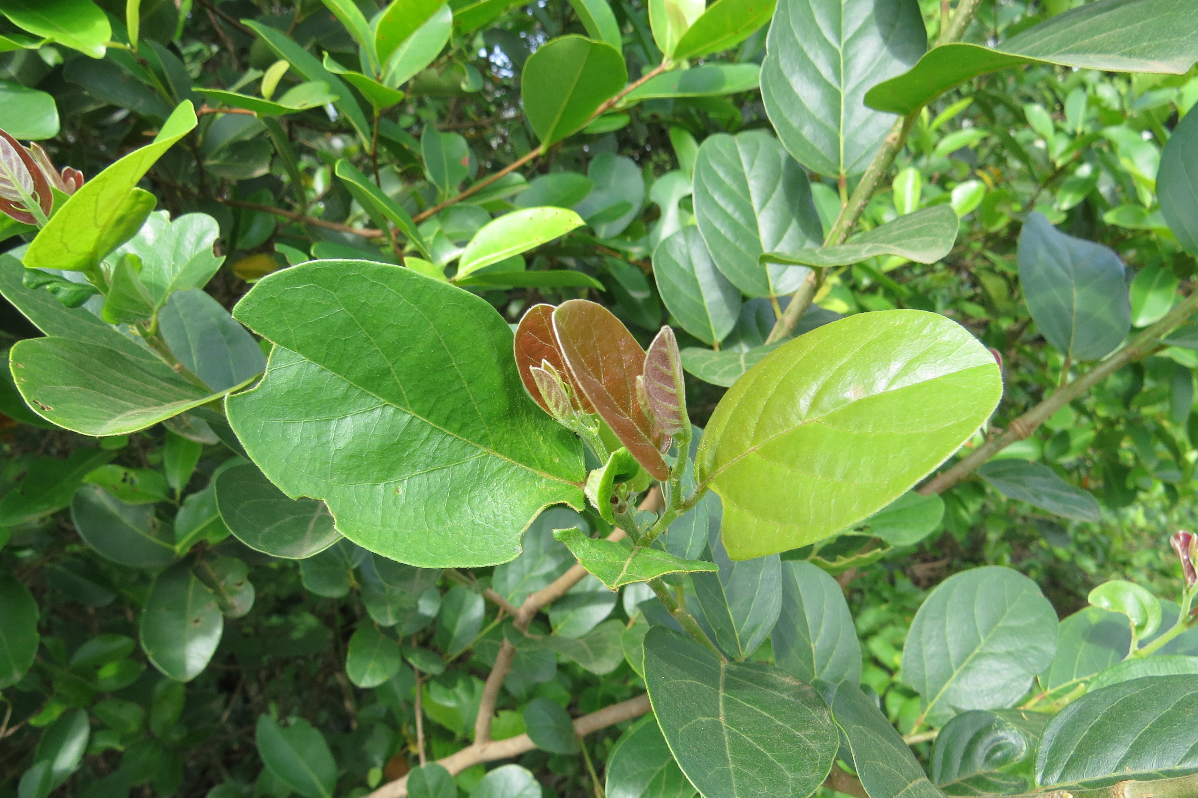 Photos from 2014 by Vinayaraj